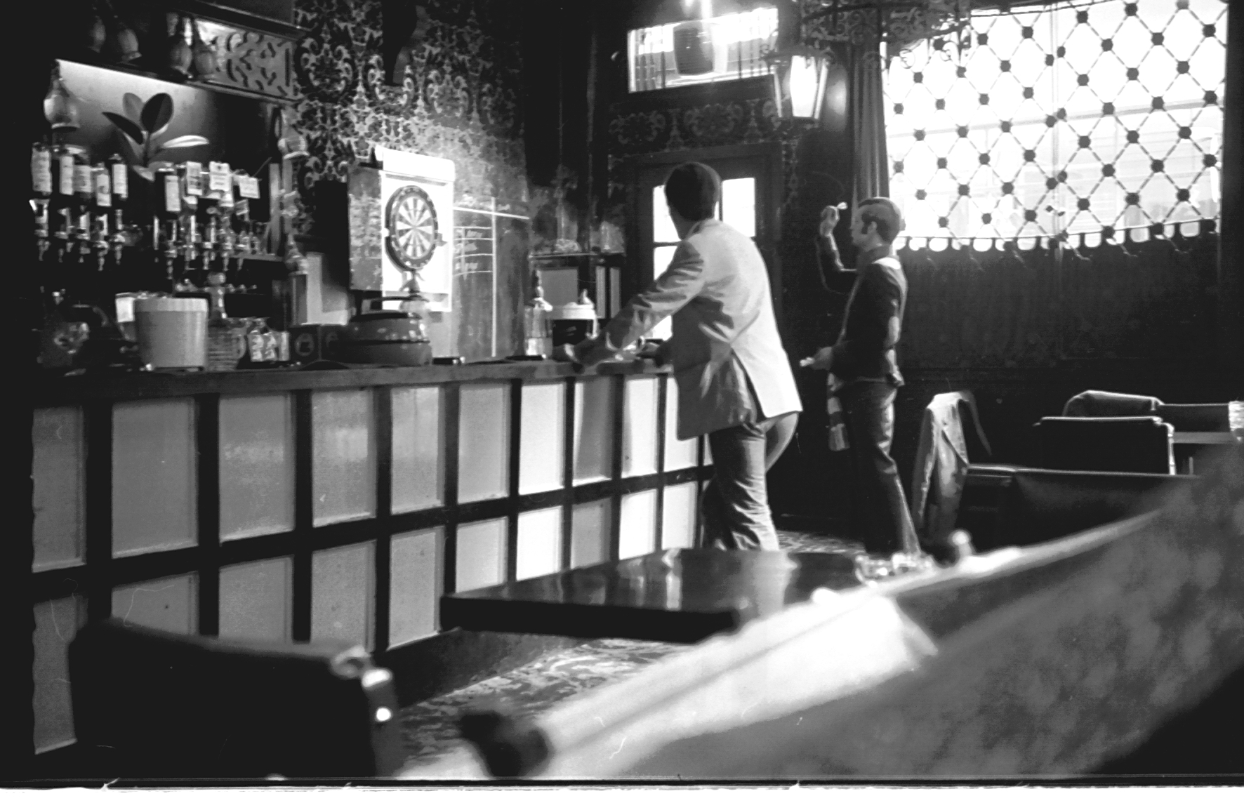 Playing darts in a pub in London's City